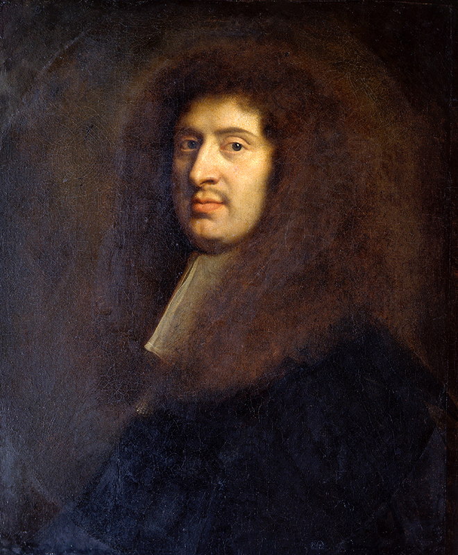 Nicolas Mignard (1606-1668), French School. Portrait of Gabriel Nicolas de La Reynie (1625-1709) Lieutenant General of Police of Paris during the reign of Louis XIV. Private Collection.